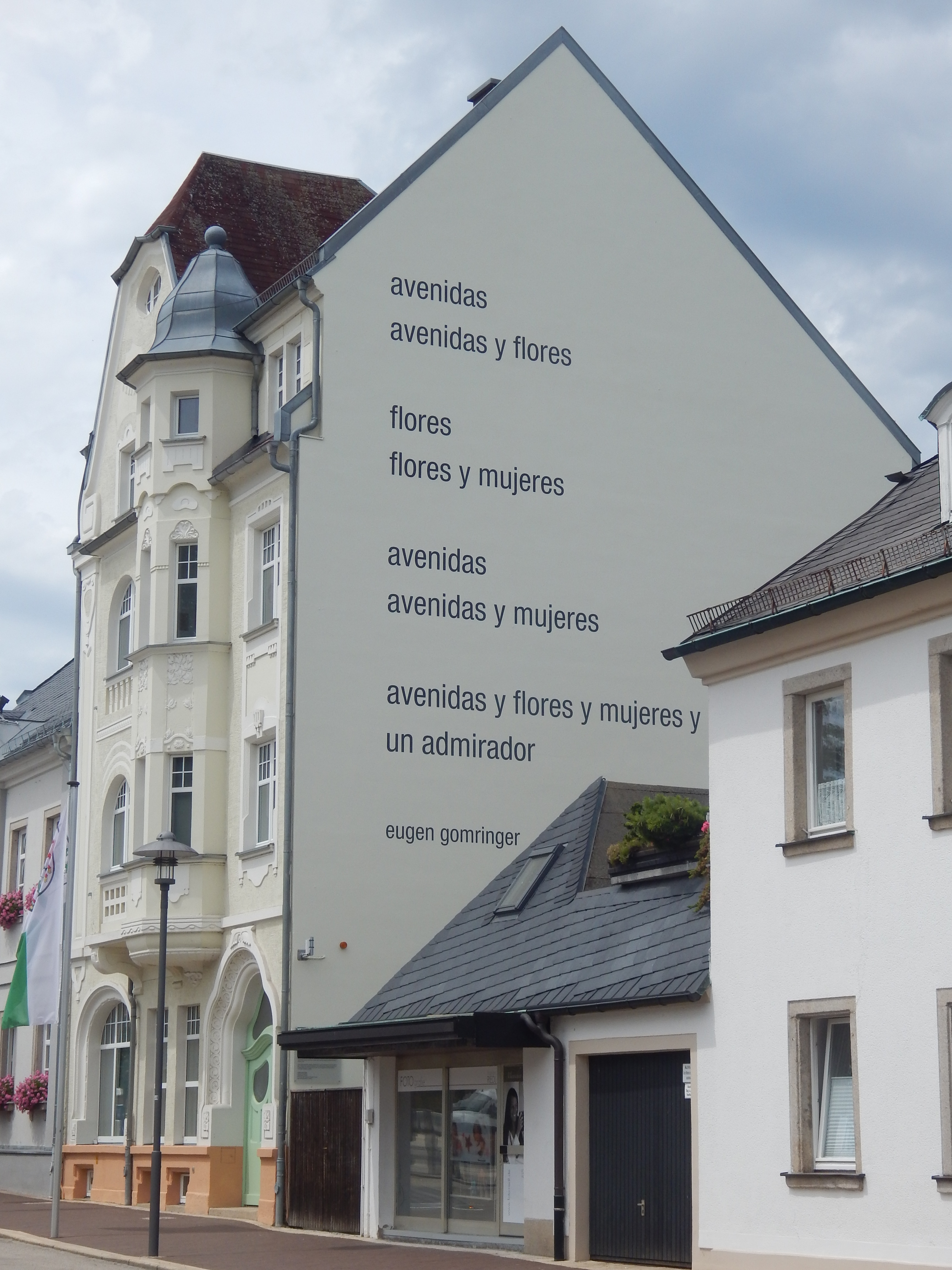 Poem "avenidas y flores y mujeres y un admirador" by Eugen Gomringer at the wall of the Museum am Maxplatz in Rehau